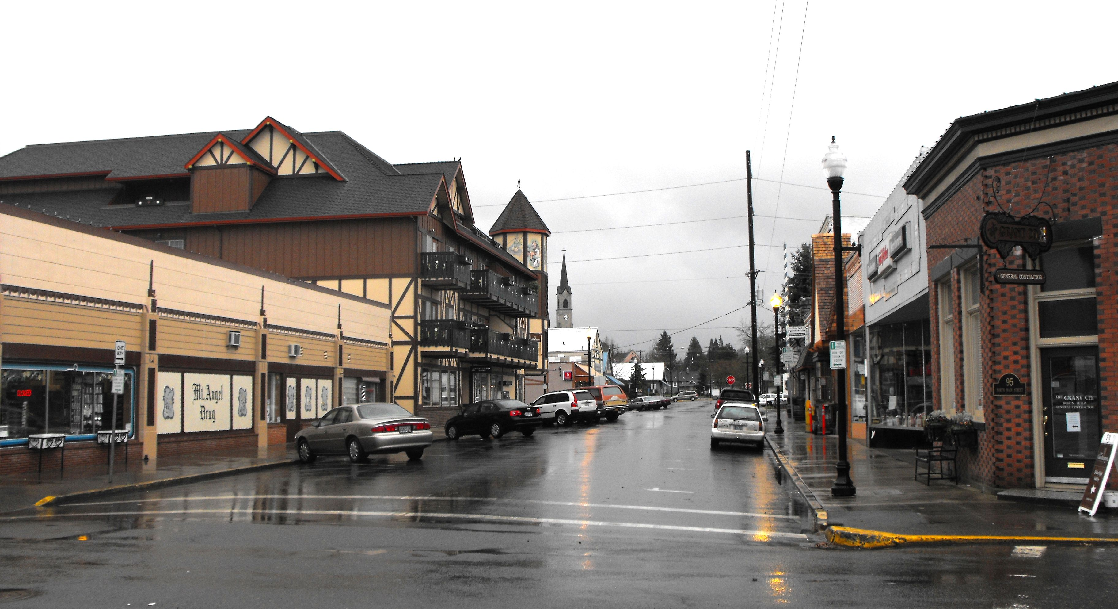 Center Mount Angel, Oregon. Charles Street.